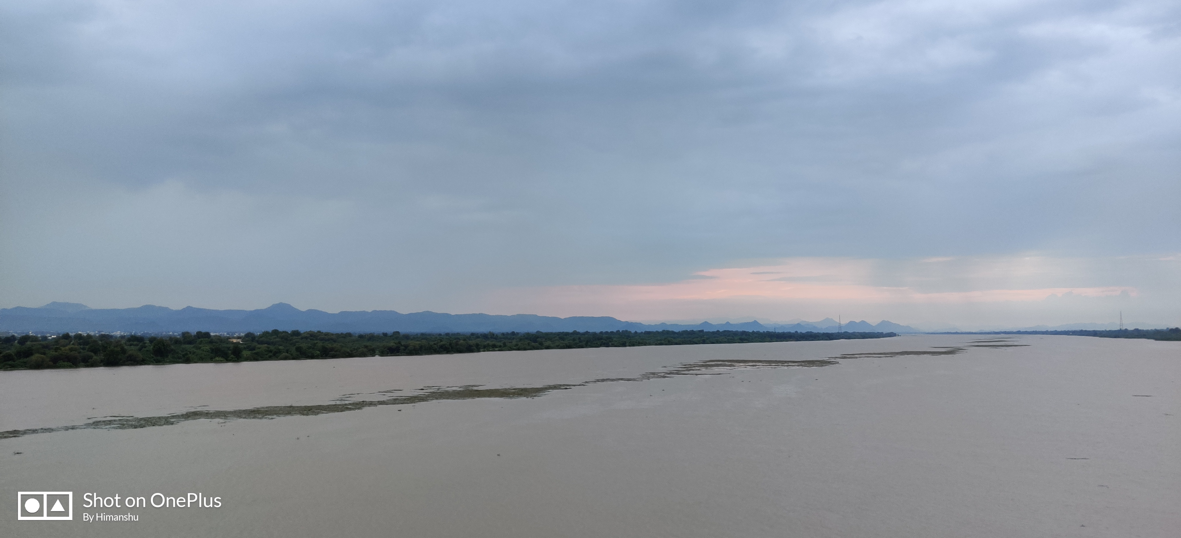 A scenic view of Narmada River from the new bridge near Barwani City with the Satpura Mountain Ranges in the backdrop.